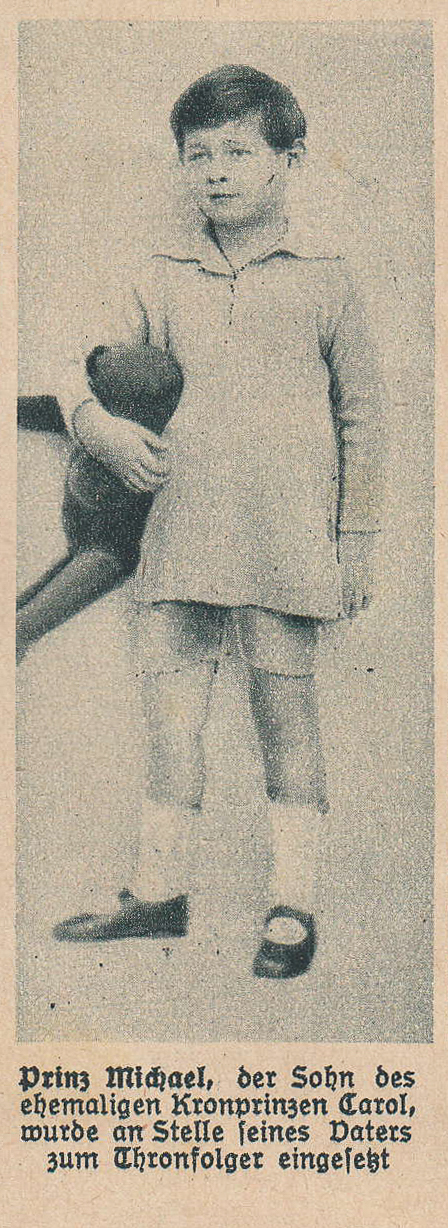 From the Catholic magazine StadtGottes 1927